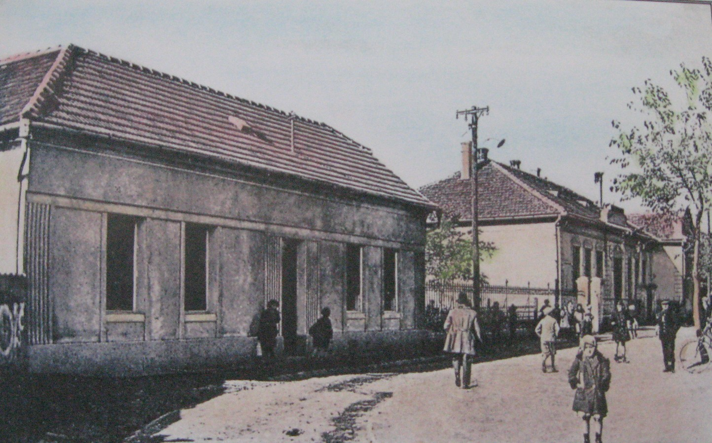 The jewish schools talmud and jeshiva in Šurany, Slovakia, in the 1930s.